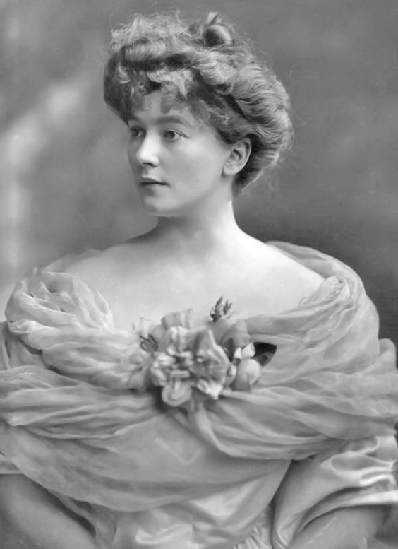 Lady Sybil Mary St Clair-Erskine (1871-1910), aristocrat and Socialite, before she became Sybil Fane, Countess of Westmorland in 1892